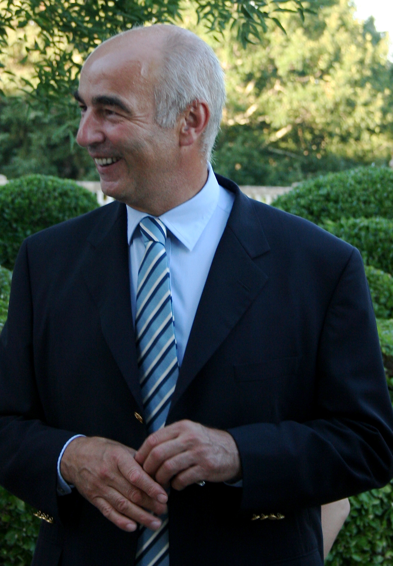 Owner of the Bordeaux wine estate